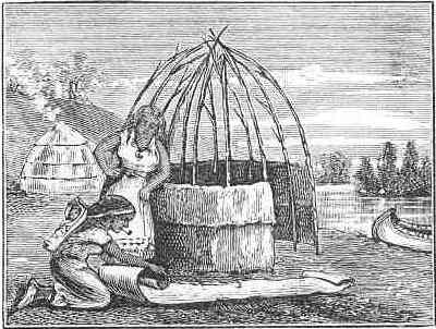 Building a Wigwam